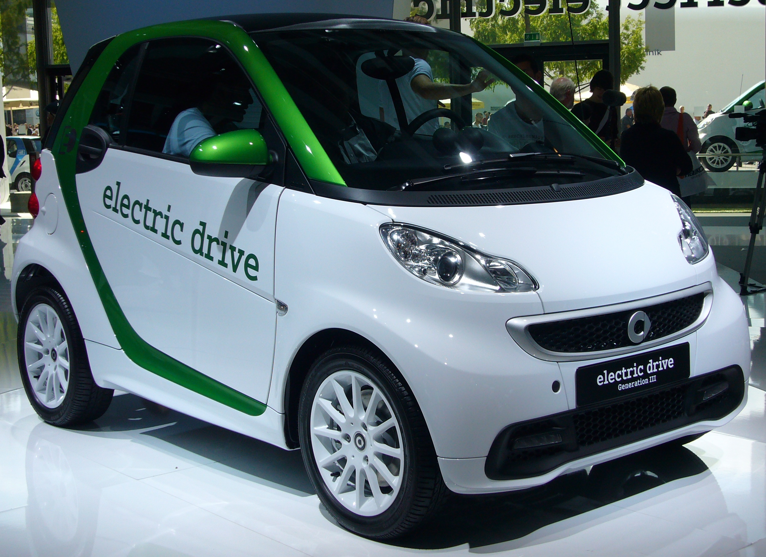 smart fortwo electric drive Generation III at IAA Frankfurt 2011